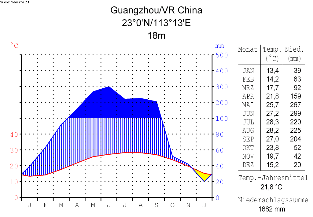 climate chart in the format by Walter and Lieth, metric, °Celsisus and millimeters, made with Geoklima 2.1